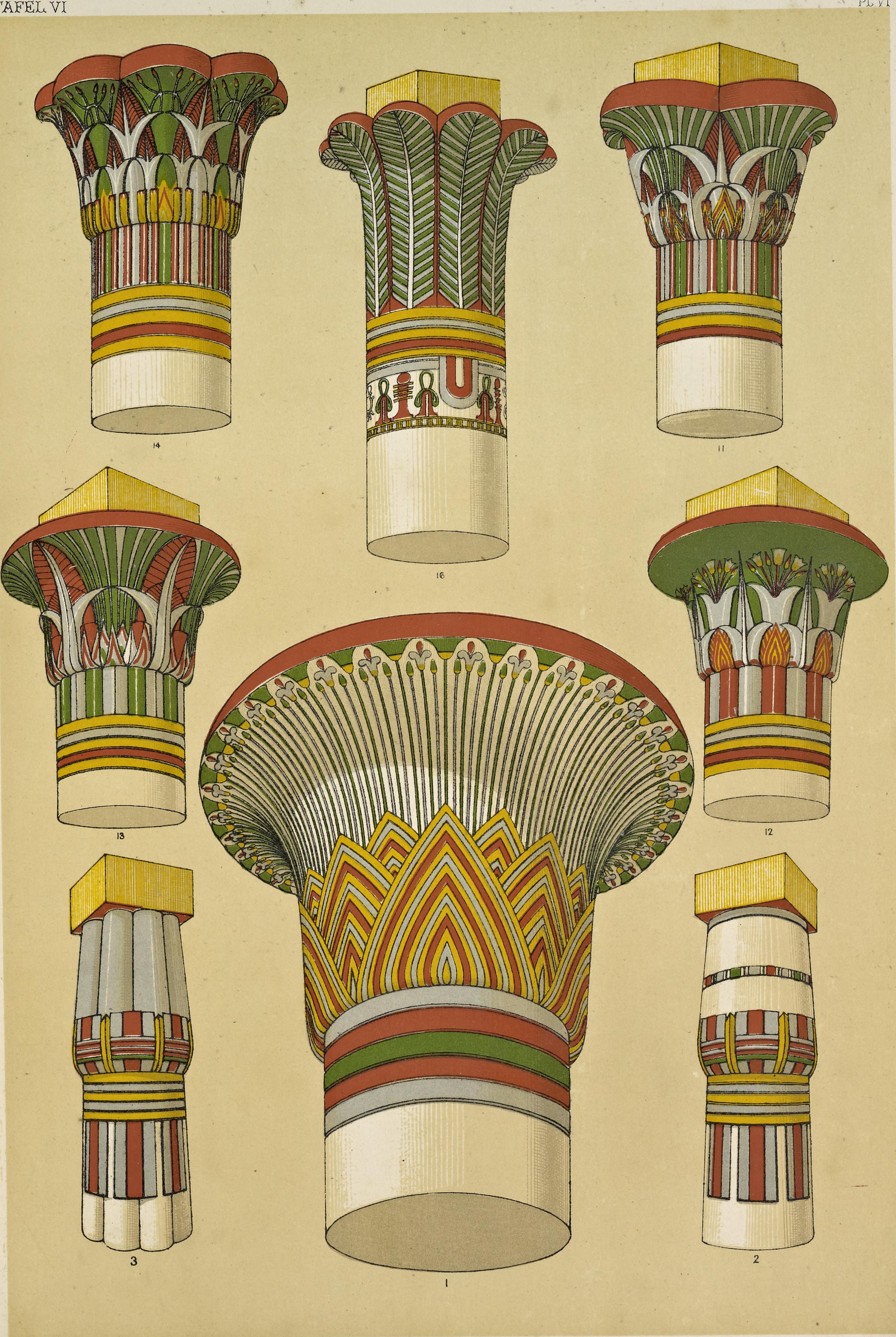 Title: The grammar of ornament Year: 1868 (1860s) Authors: Jones, Owen, 1809-1874 Waring, J. B. (John Burley), 1823-1875 Westwood, J. O. (John Obadiah), 1805-1893 Wyatt, M. Digby (Matthew Digby), Sir, 1820-1877 Bernard Quaritch (Firm), publisher Subjects: Decoration and ornament Decoration and ornament Decorative arts Publisher: London : Bernard Quaritch, 15 Piccadilly Text Appearing Before Image: MB 1 1 m ■-.-..& IH B ■Kg I v • • •■■ • ■■1 ;HI 1 i ;! : - :.-...- ....-. . -:-ii ..■■-■-.; AEGYPTIS CH TAFELVI EGYPTIAN M°3 EGYPTIEN cuq PL.yi Text Appearing After Image: i ■ ( . • ..■■.. a ..... / P TIS C. H TAFEL YI * EGYPTIAN N°3* EGYPT IE NS PL VI*